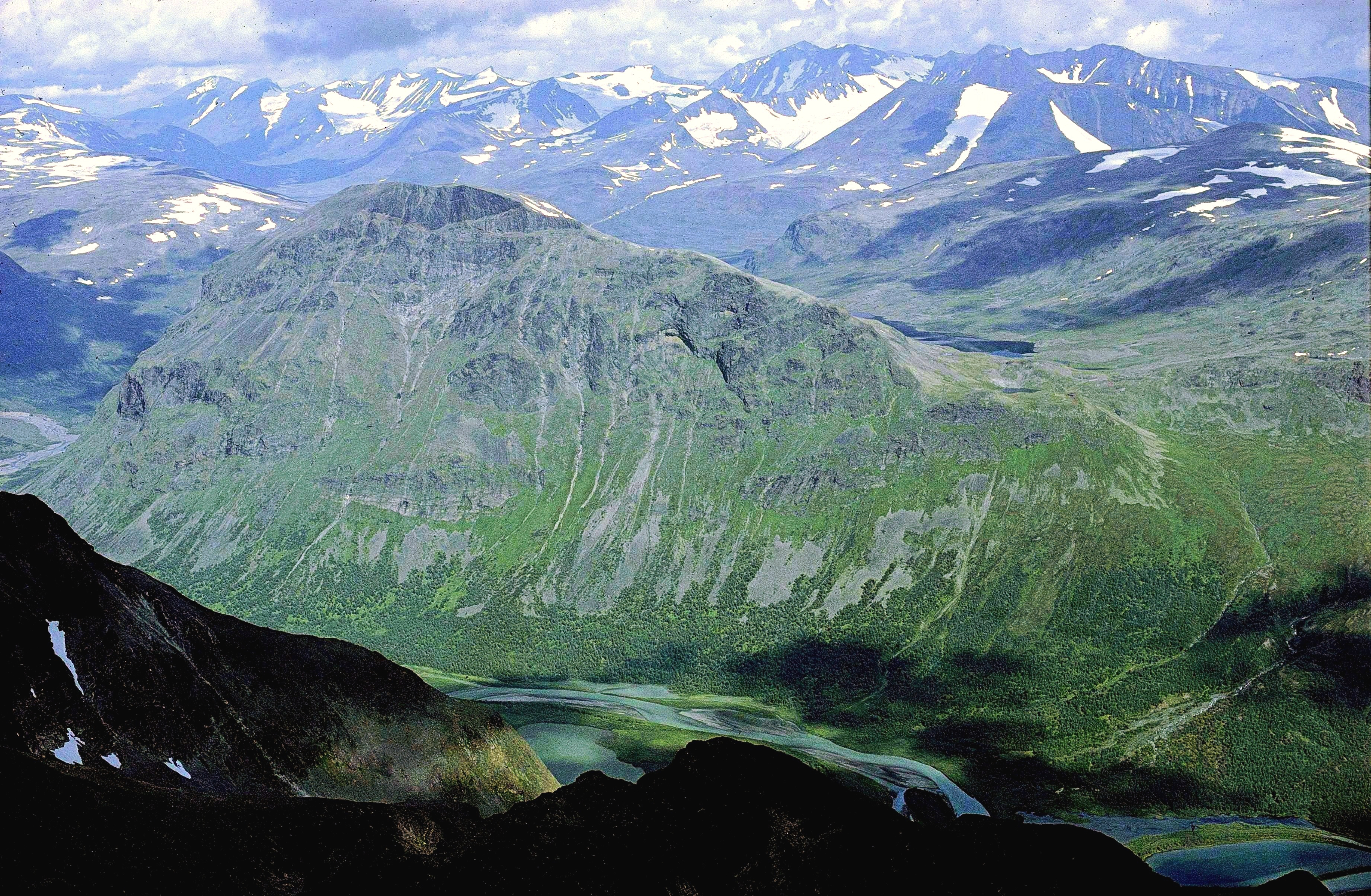 Låddepakte sett från Piellorieppe